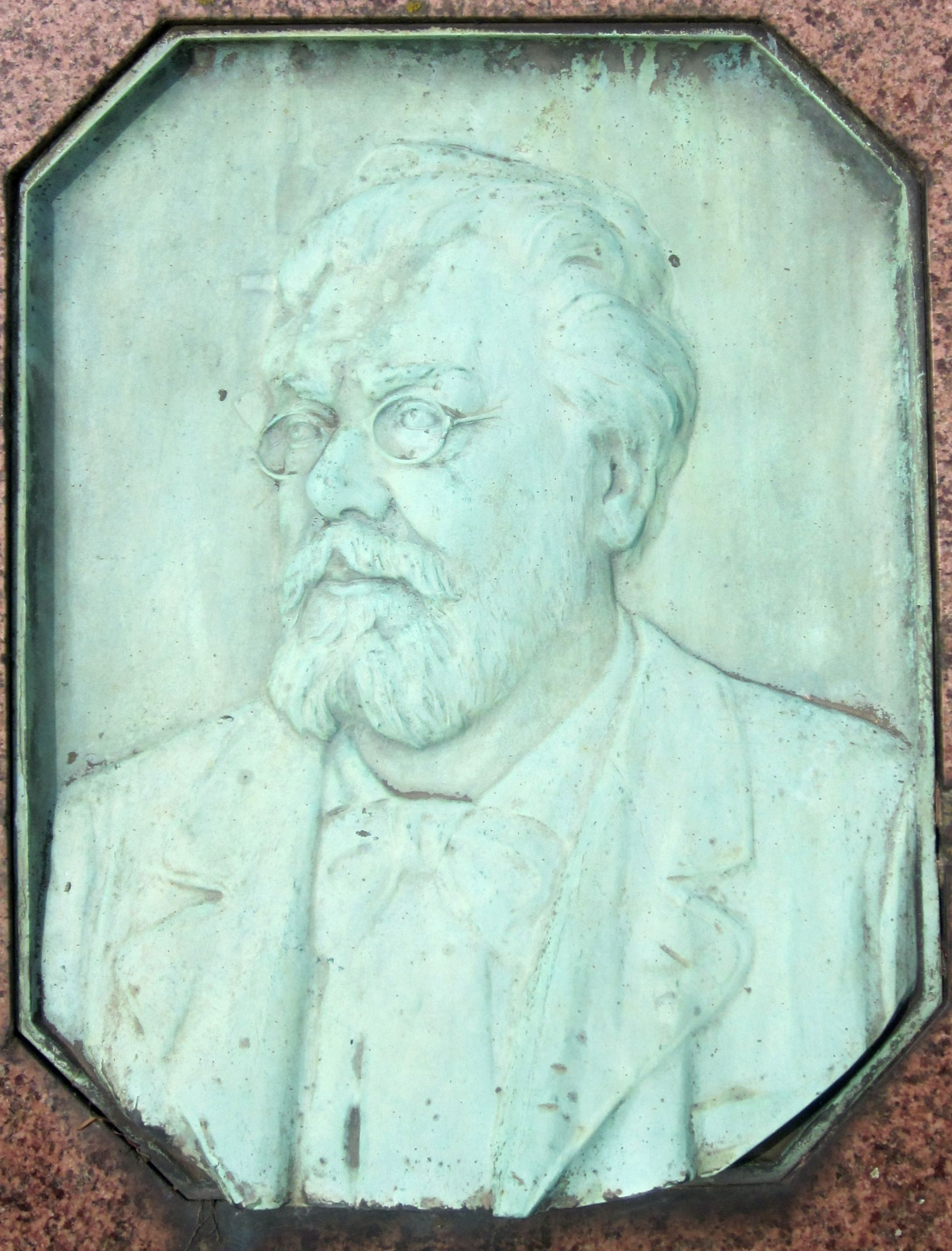 Portrait relief of the writer, theater director, and critic Adolph L'Arronge on his gravestone on the Cemetery III of the Jerusalem and New Church (Cemeteries in front of Hallesches Tor) at Mehringdamm No. 21 in Berlin-Kreuzberg.